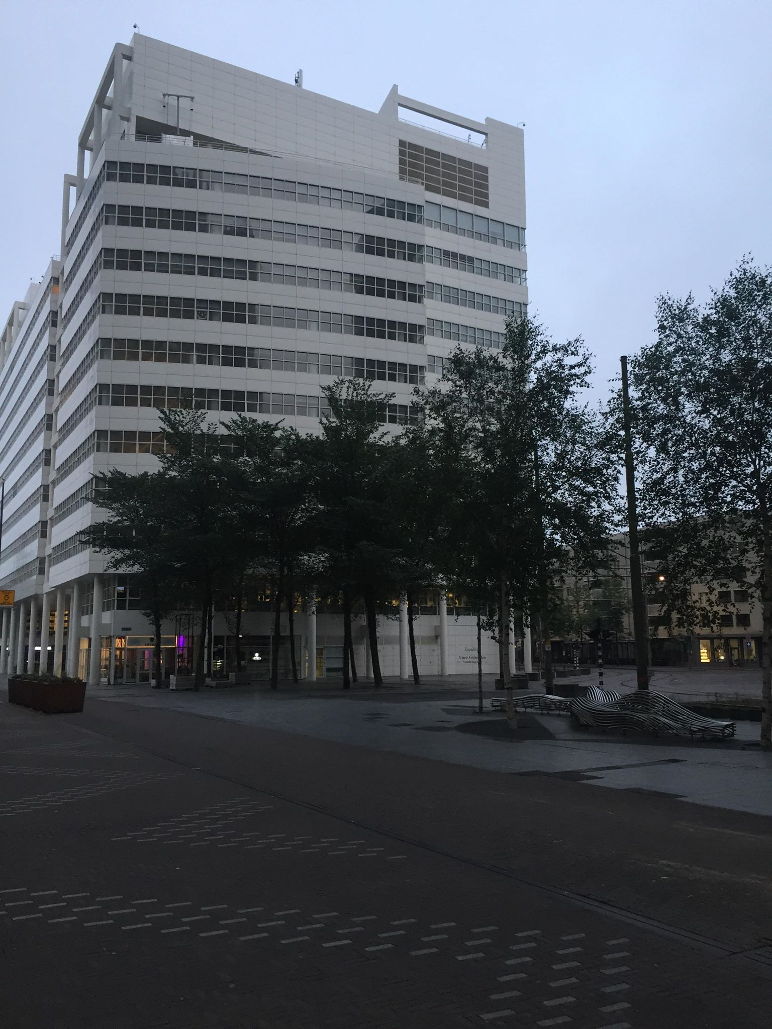 View on The Hague City Hall